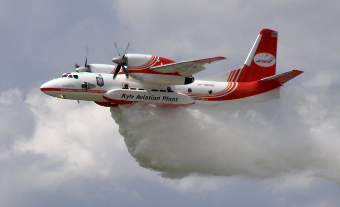 Ukrainian fire-bomber An-32P, made by Kyiv «Aviant» State Aircraft Plant. (camera - SP-500 Ultra Zoom)